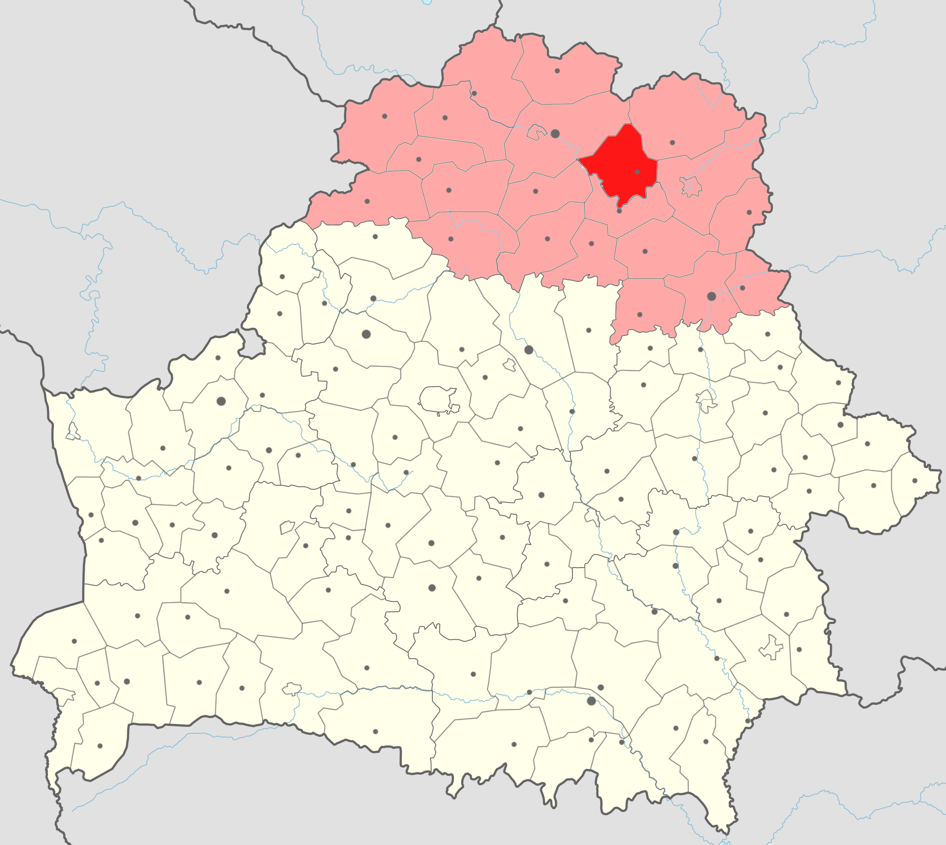 Map of Šumilinski raion (in red) with Viciebskaja voblast' (in light red) on the map of Belarus.